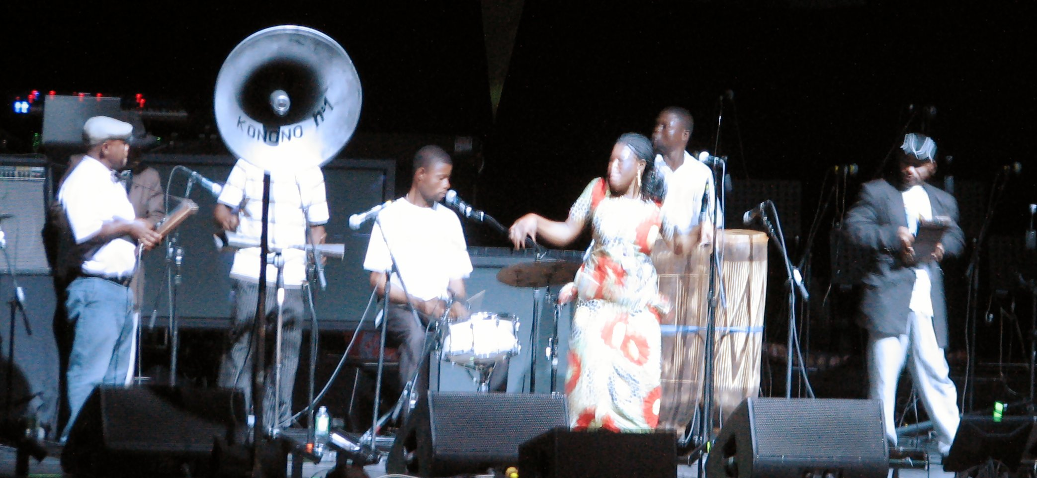 Konono N°1 opening for Björk Guðmundsdóttir at the Radio City Music Hall in New York City, New York, United States